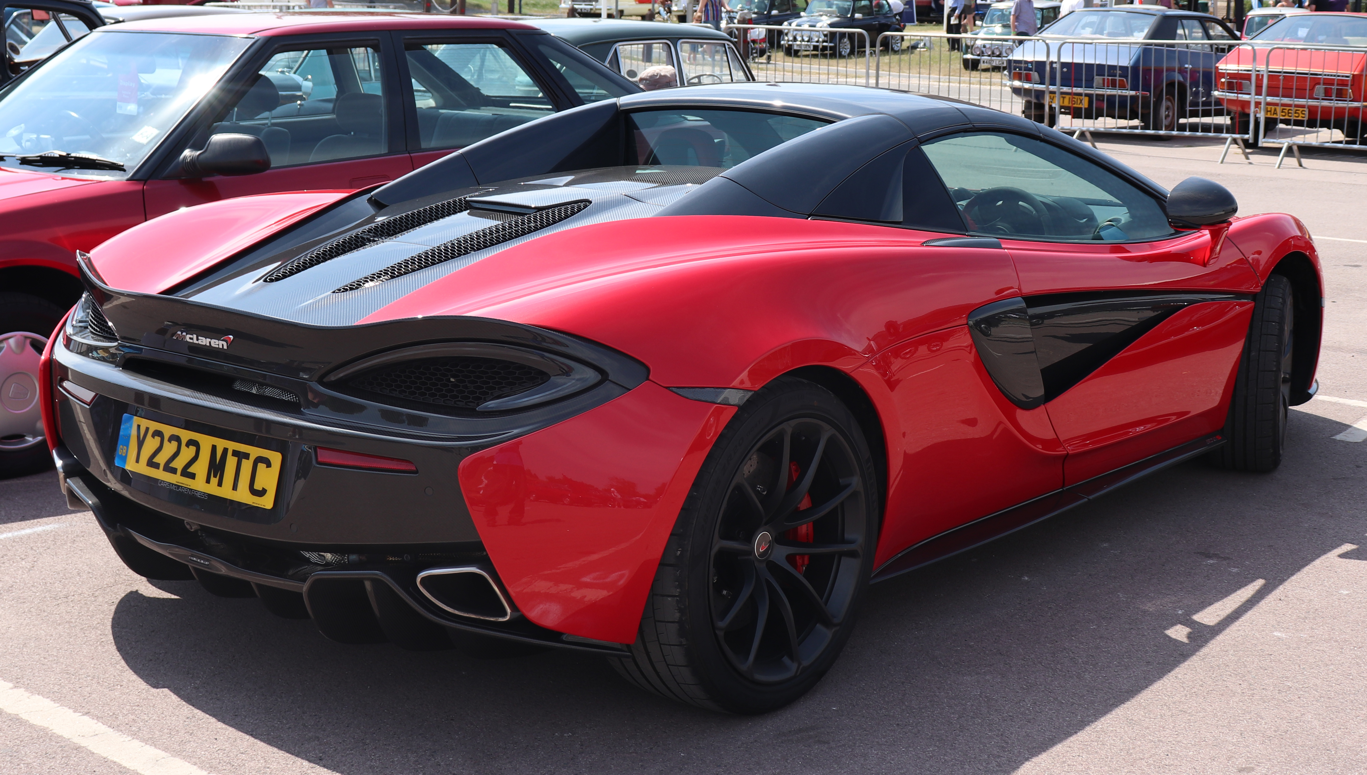 2018 McLaren 570S Spider S-A 3.8 Rear Taken at the British Motor Museum BMC & Leyland Show 2018, Gaydon